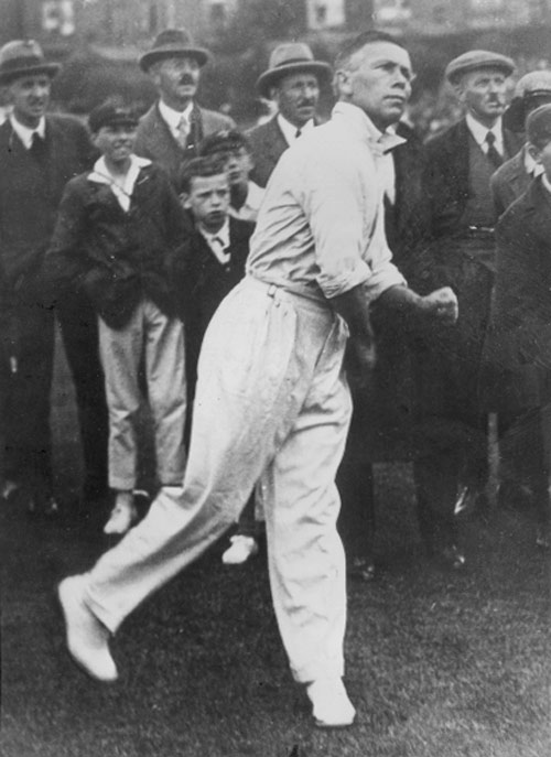 circa 1910: Australian bowler Arthur Mailey (1886 - 1967).